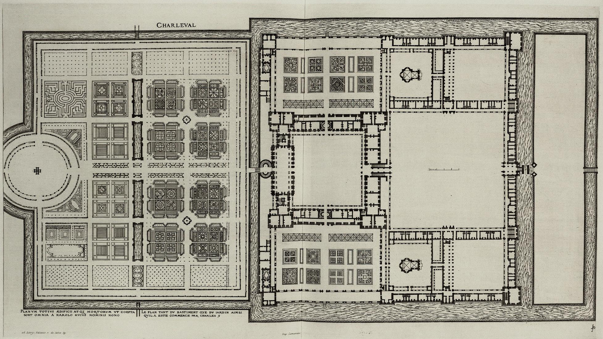 Floorplan of the Château de Charleval, 16th century engraving